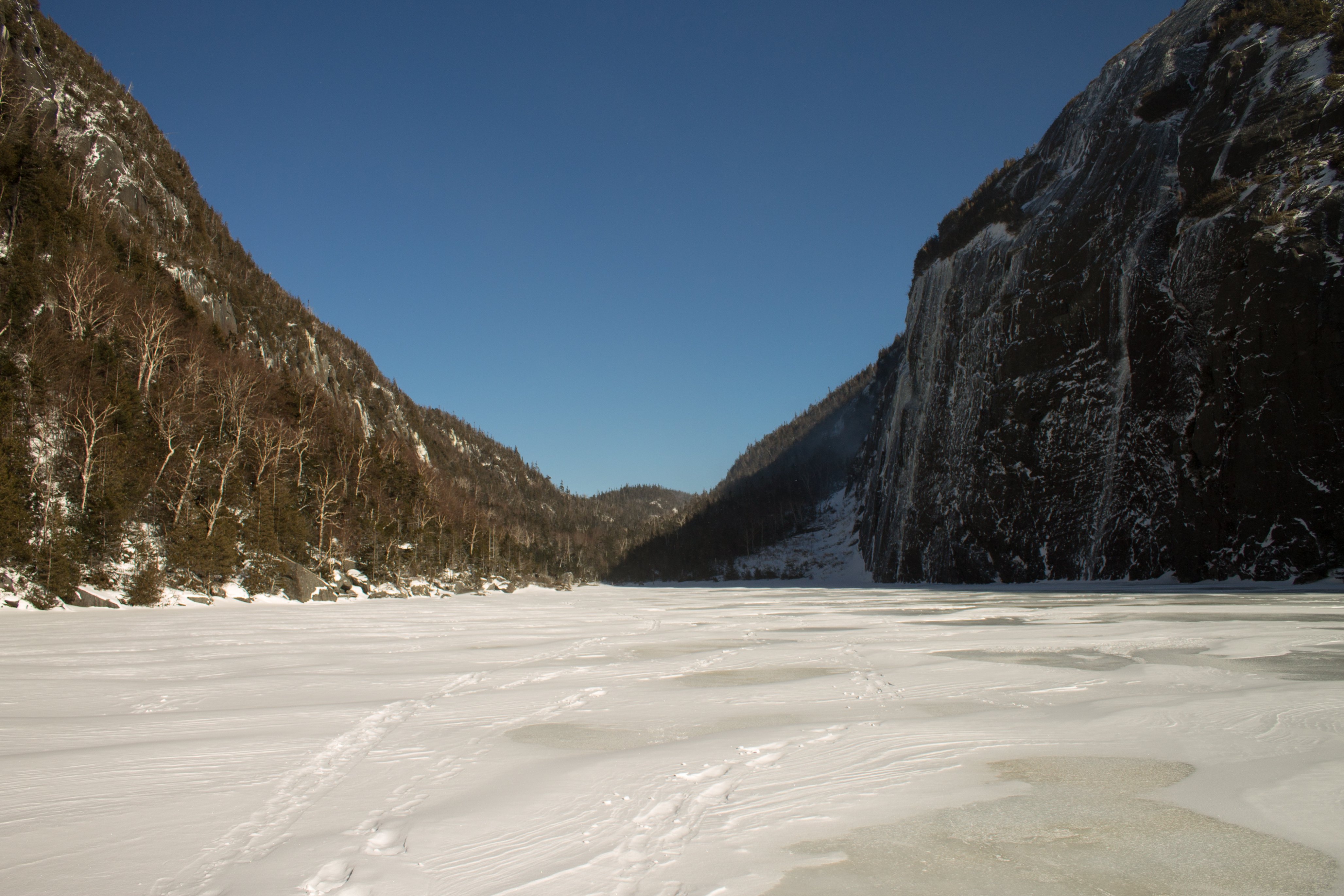 Avalanche Lake frozen over; looking southwest.